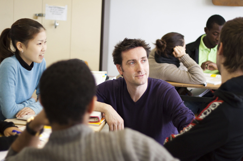 in a classroom